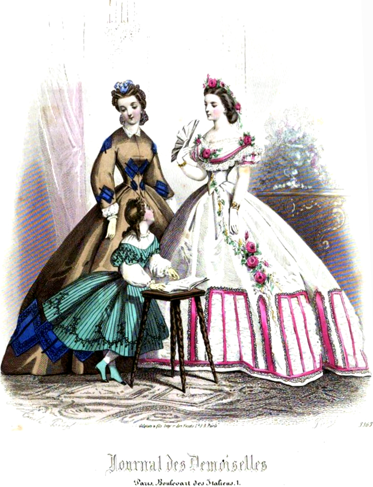 First page of Le Journal des Demoiselles a French magazine founded in 1832.